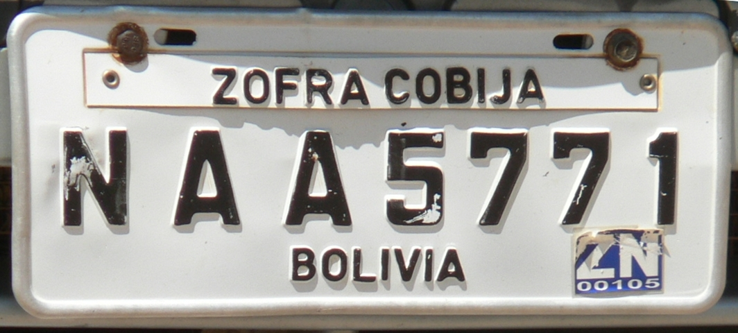 Unusual license plate of Bolivia. Only valid in the "ZOFRA COBIJA" - a duty free zone around Cobija in northern Bolivia. (seen 2014).